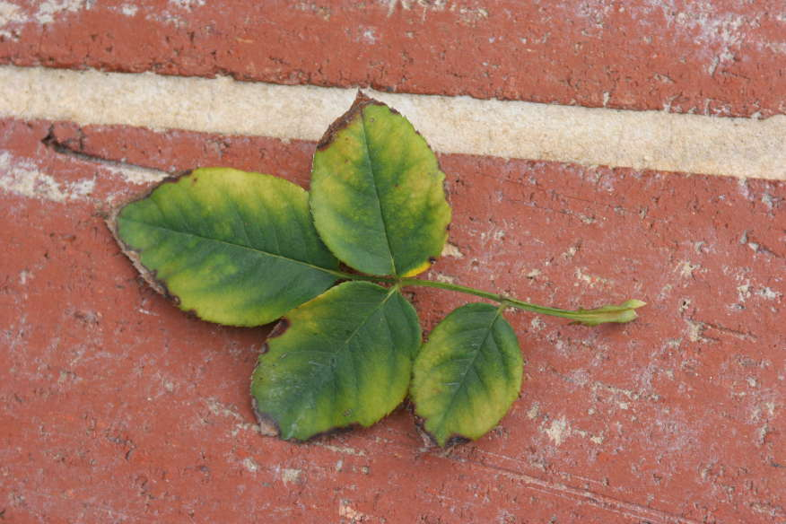 Something most rosarians seem not to recognize is symptoms of boron toxicity. It looks almost exactly like magnesium deficiency -- an inverted "V" or "Christmas tree" of green, on an otherwise yellow leaf, always on the oldest leaves of the plant. But I know my gardens are rich in Mg. This symptom turns up when the soil pH is too low, and too much boron becomes available. Sure enough, when measured, the pH under these symptomatic roses was around 4.9. The solution is to bring the pH up with some lime.